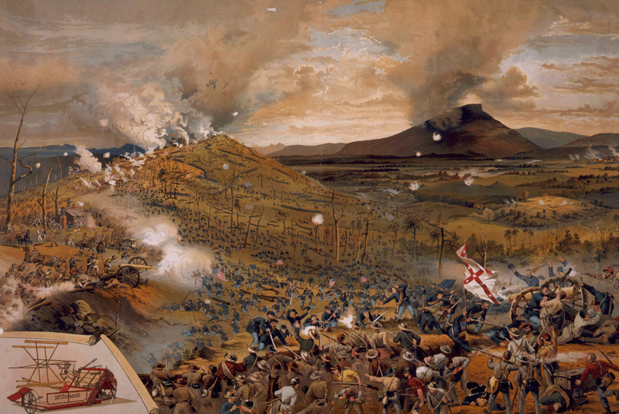 Battle of Missionary Ridge showing the Union assault during the 2nd day of battle; also shown, an insert of McCormick harvesting machine.